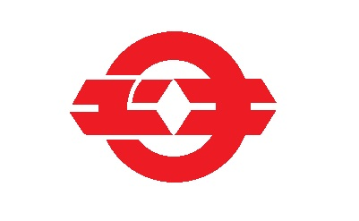 Flag of Yuki Ibaraki